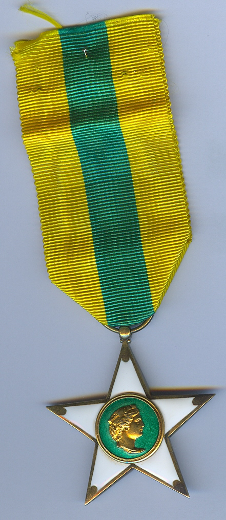 The Order of the Star of Merit of Labour, Italy